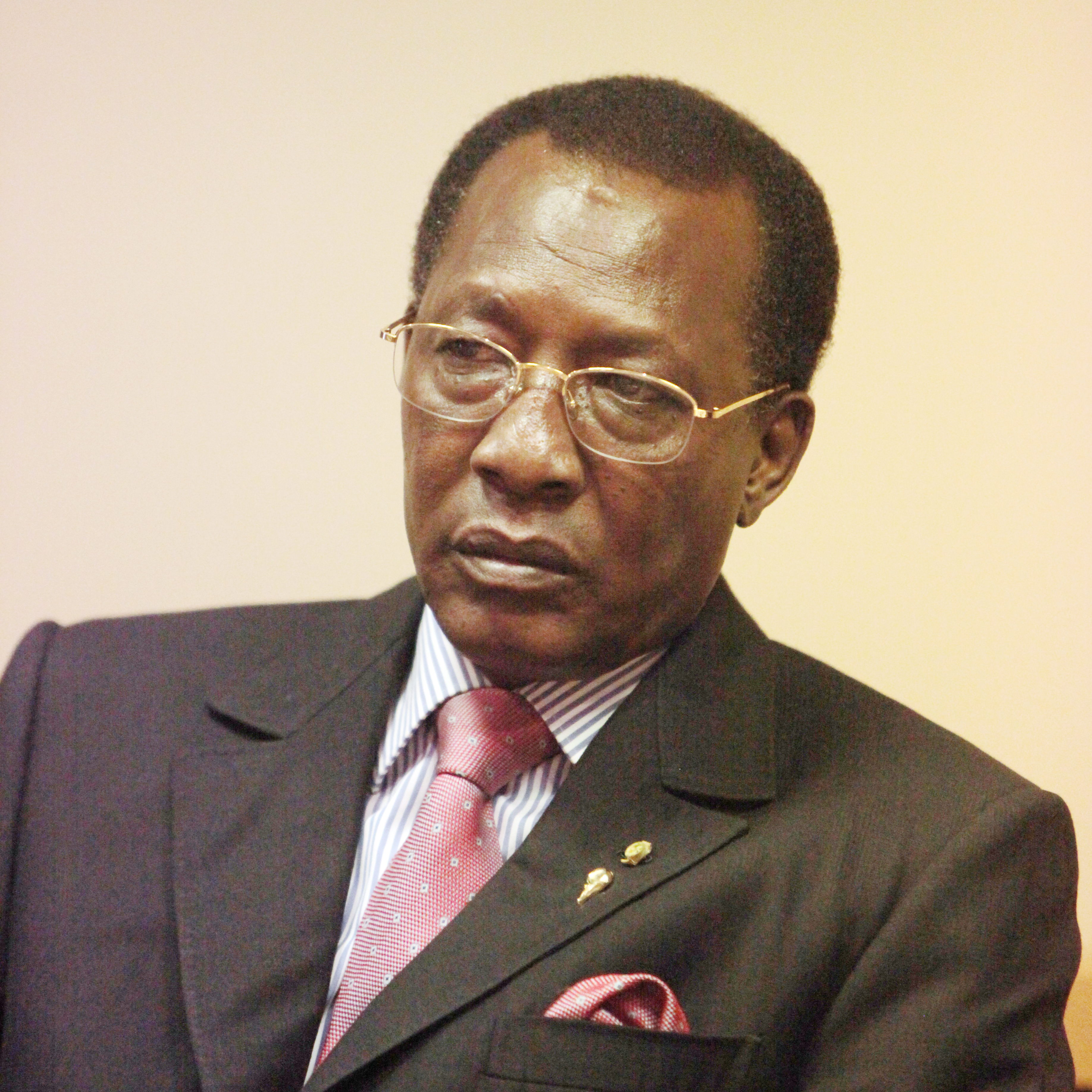 Idriss Déby at the 6th World Water Forum